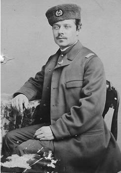 Emil Koenig: Age, 24 years. Enrolled September 18th, 1861 at New York City. Mustered into Company C U.S. Rifles (58 NY) as a sergeant September 25th, 1861. Transferred to Company I, this regiment November 23rd, 1861 and mustered as in as second lieutenant December 11th, 1861. Promoted to first lieutenant June 18th, 1862 and mustered in as captain Company E May 1st, 1863. Mustered out with company October 1st, 1865 at Nashville TN.